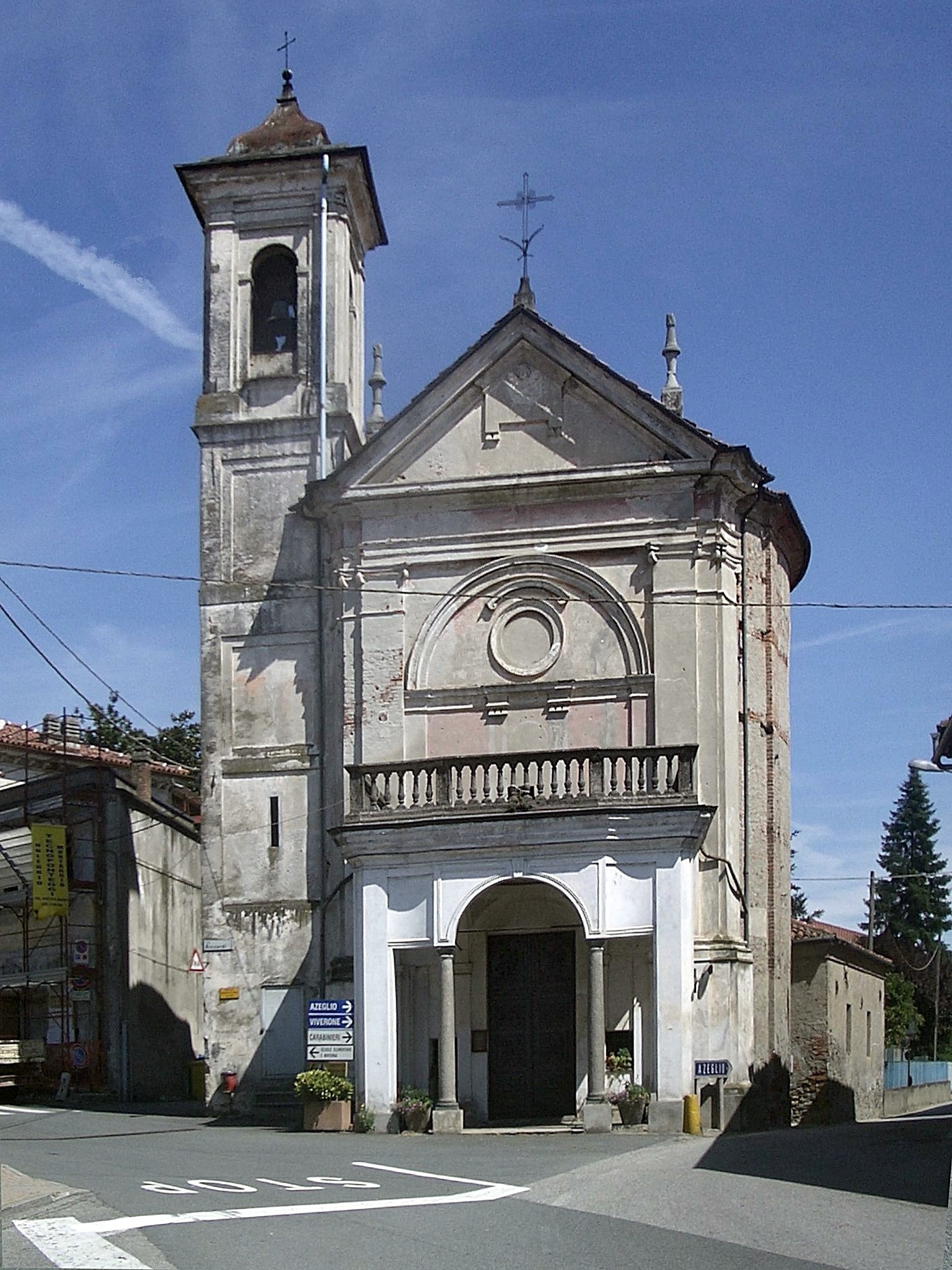 Albiano d'Ivrea, Santuario Madonna della Crosa